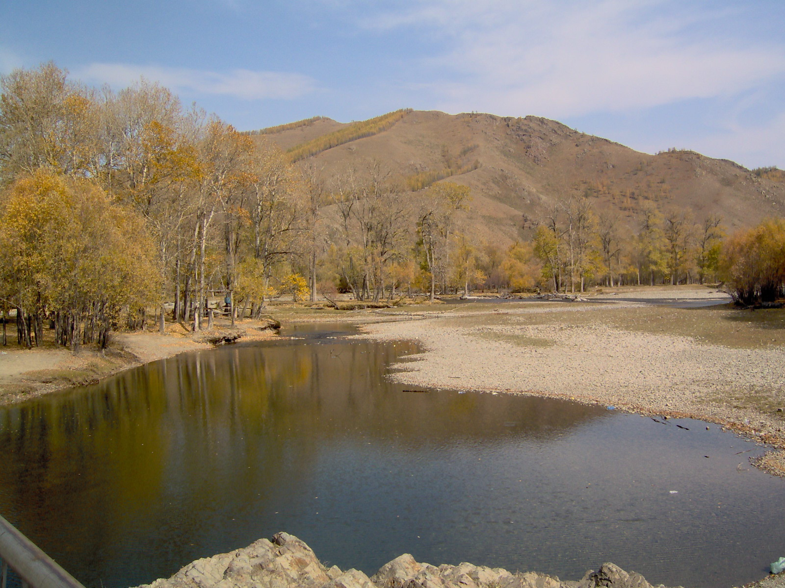 Gorkhi-Terelj National Park